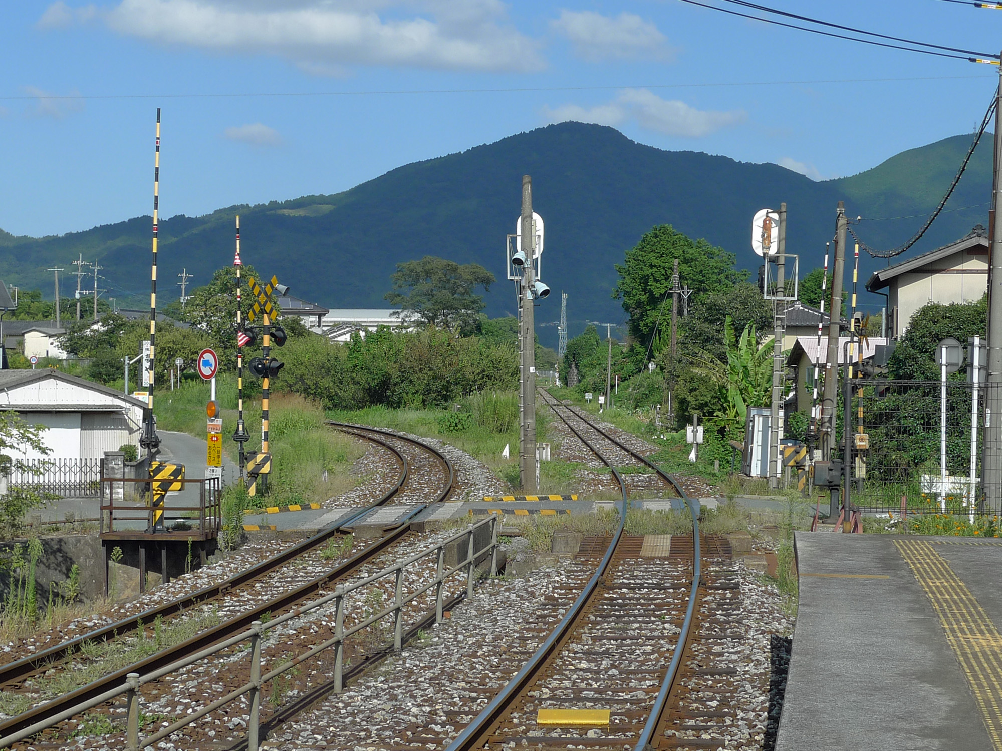 Kami-Ita Station of Heisei Chikuho Railway, view towards Yukuhashi. The track on the left is JR Kyushu Hitahikosan Line for Jono whilst the one on the right leads to Yukuhashi